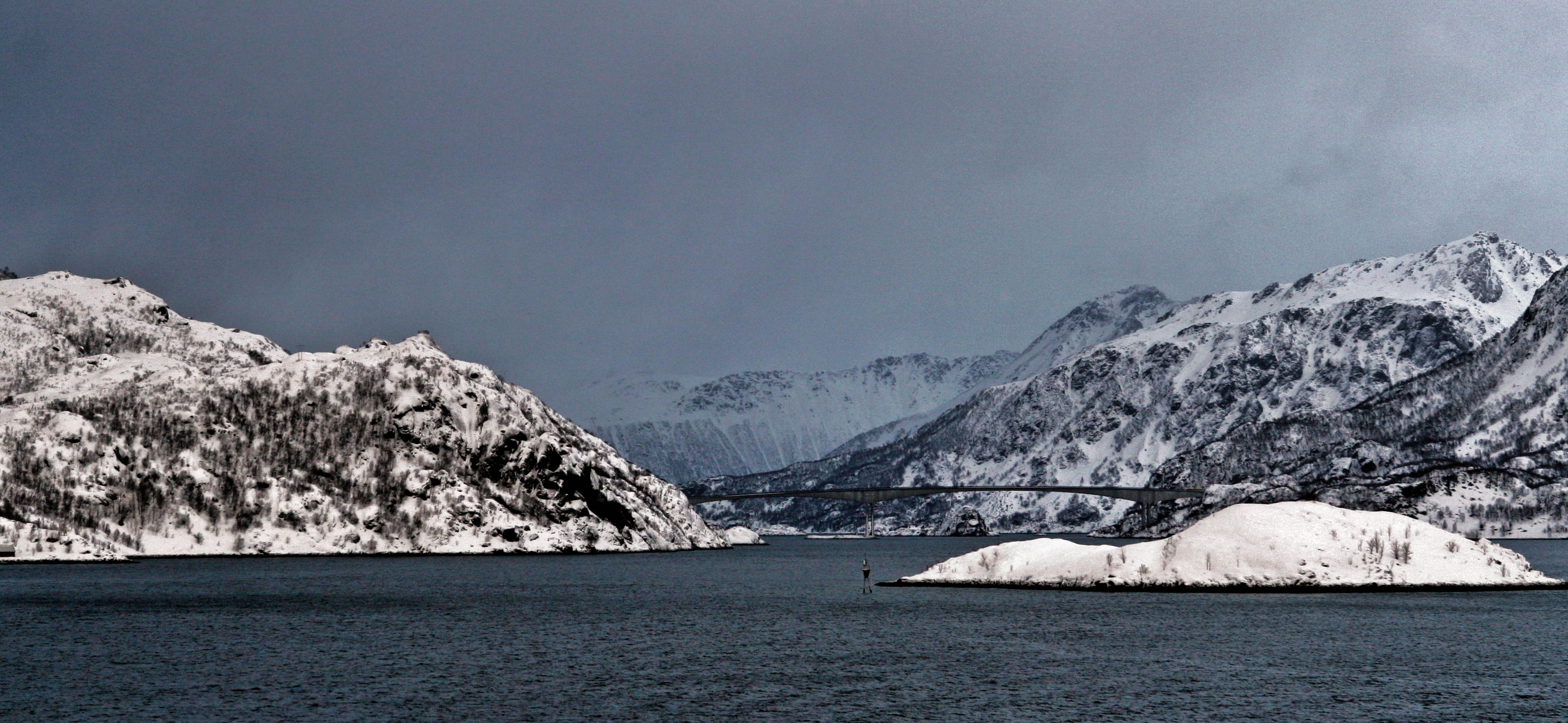 Bridge over Raftsund, Hadsel municipality, Norway